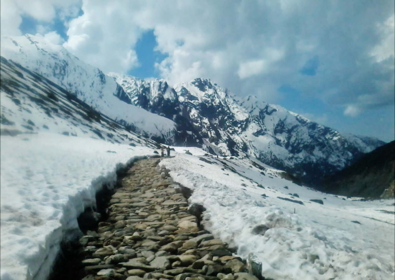 way to templen